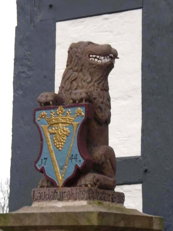 The "Lion of U-Town" in front of the historical city hall, Uslar, Germany.